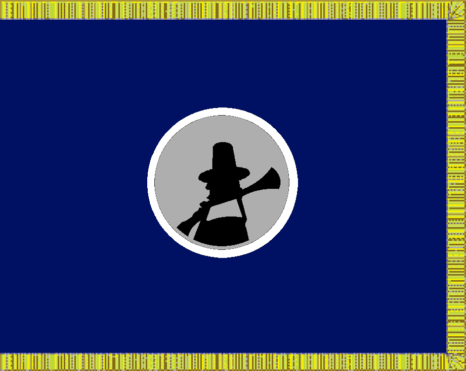 Distinguishing colour of the 94th Army Reserve Command / 94th Regional Support Command (United States) in 1968-1991